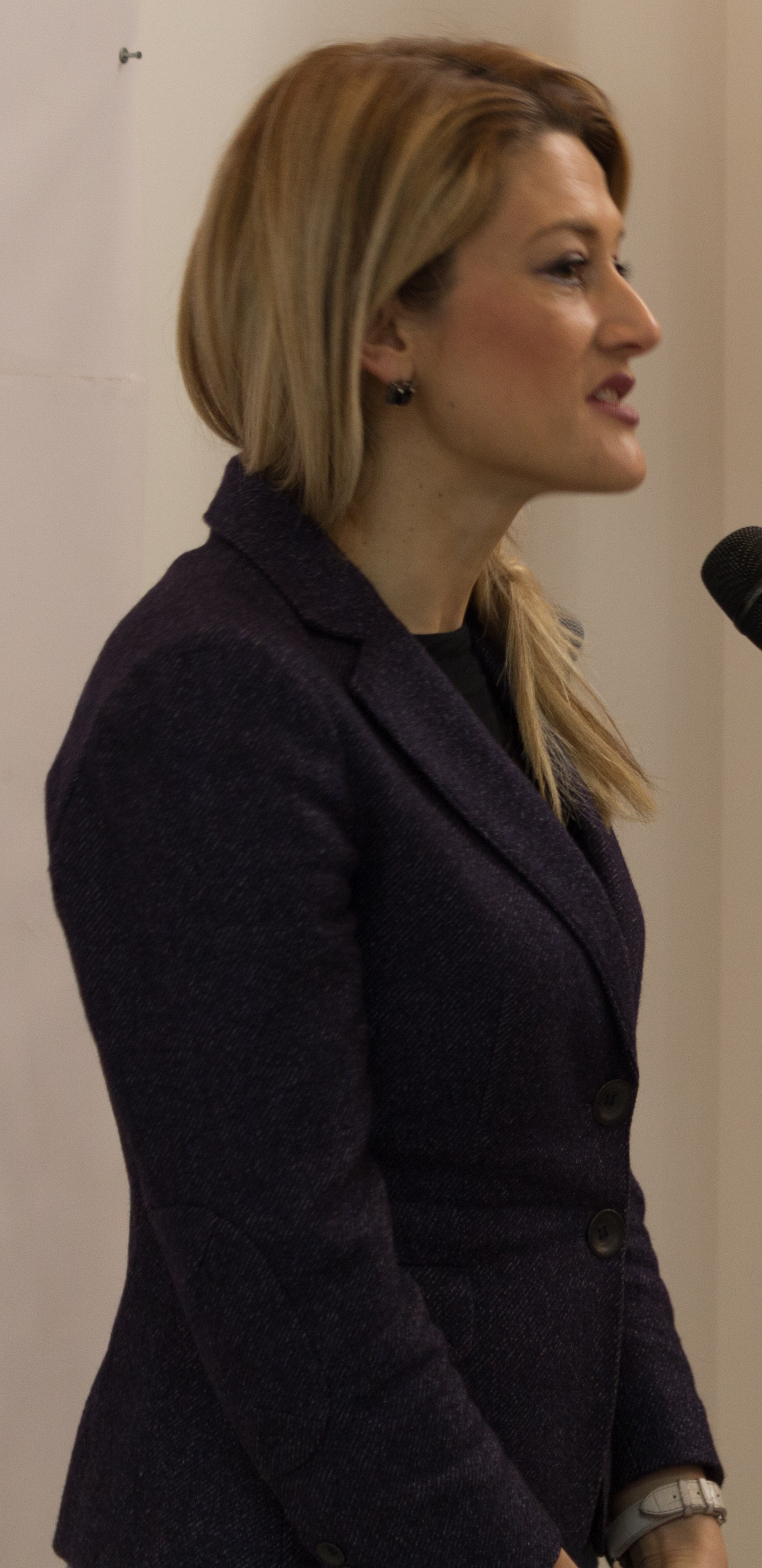 Mimoza Kusari Lila speaking during Wiki Academy Kosovo II